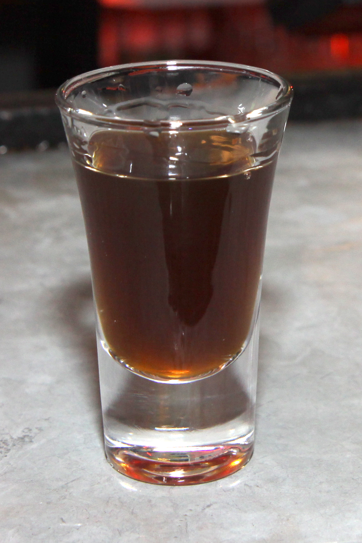 A shot glass filled with alcohol and fishermans friends taste